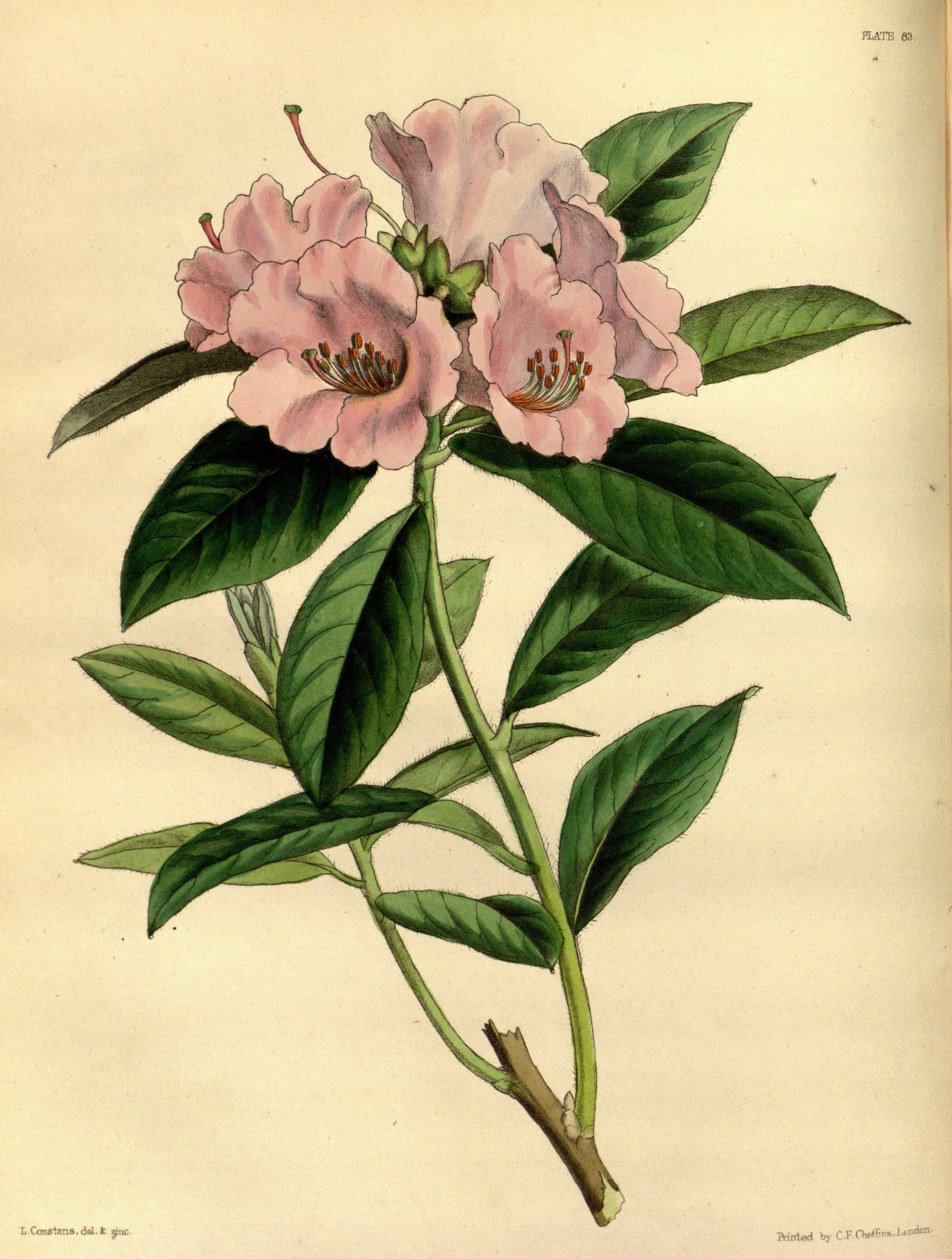 Rhododendron ciliatum Hook. f.